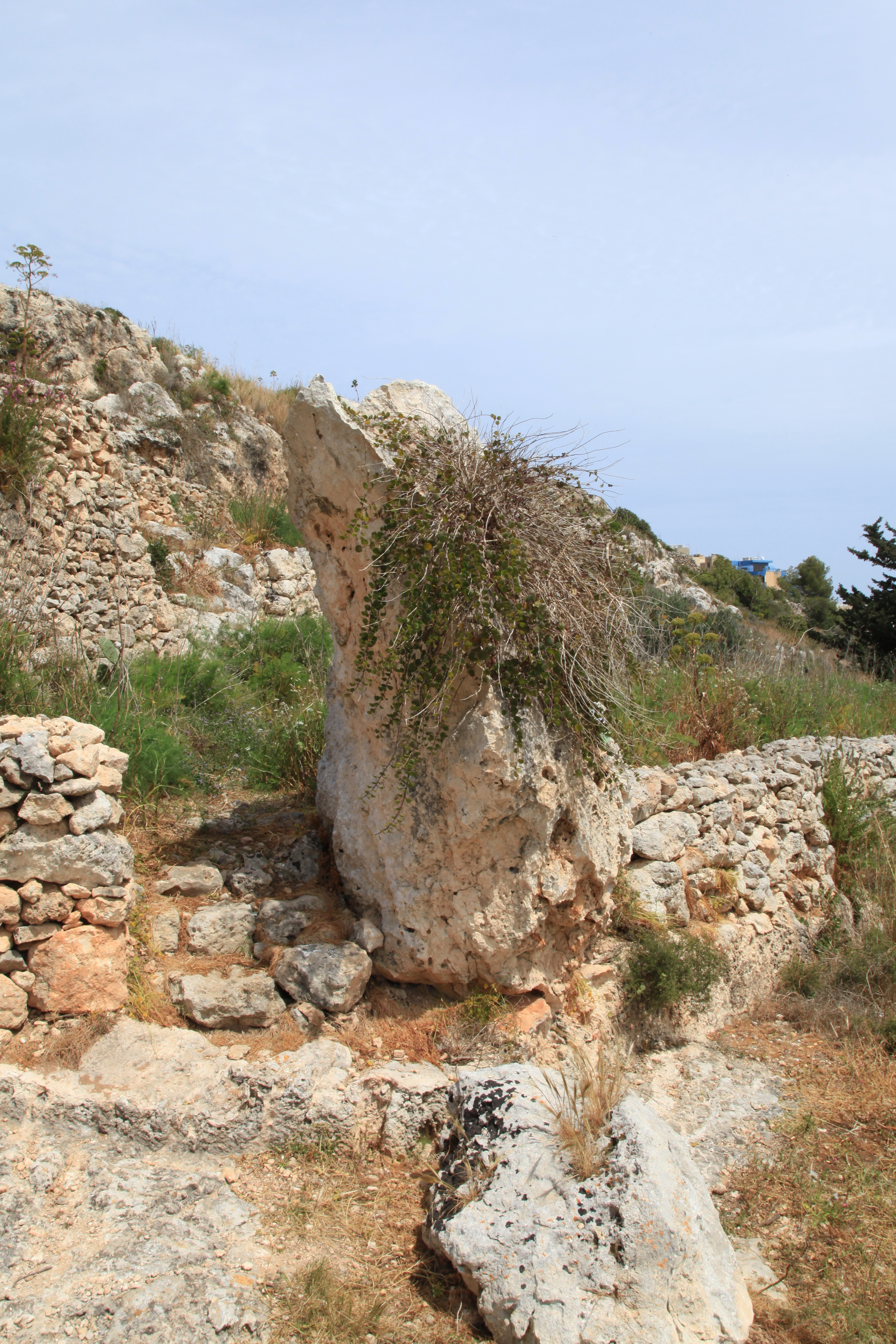 Menhir at the Roman road, Xemxija Heritage Trail in St. Paul's Bay, Malta